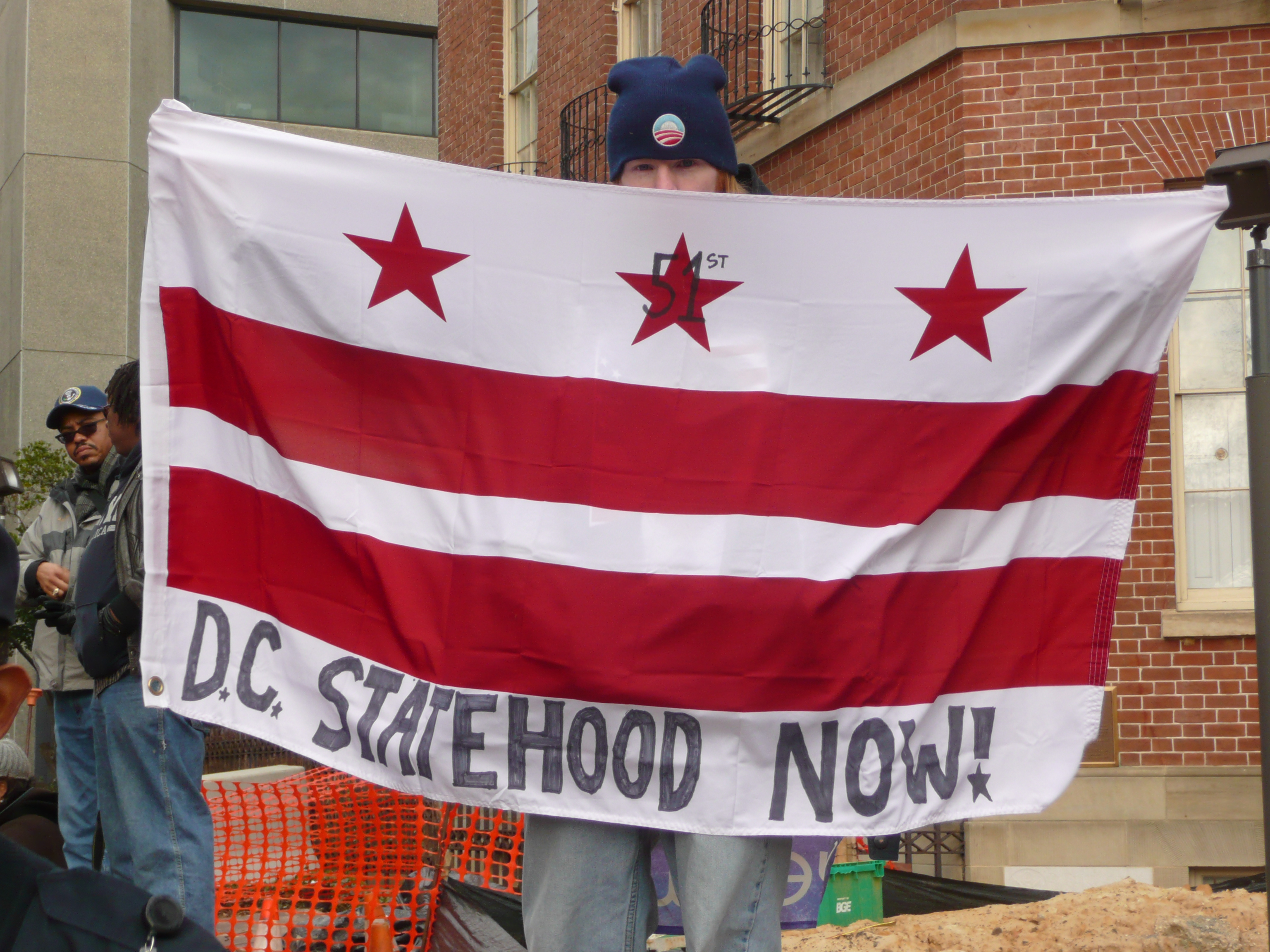 Second inauguration of Barack Obama